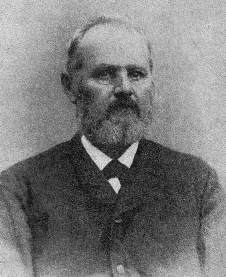 Julius Schad, mayor of Tuttlingen (1866-1876)